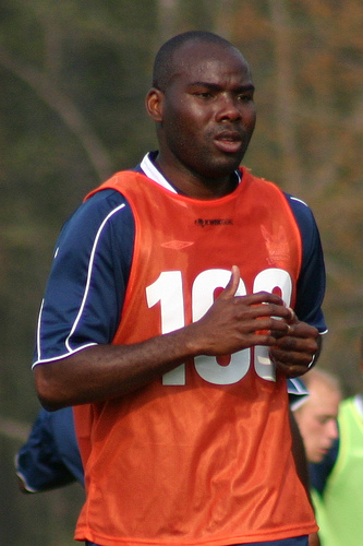 Photo by W. Jarrett Campbell uploaded to Flickr under Creative Commons license